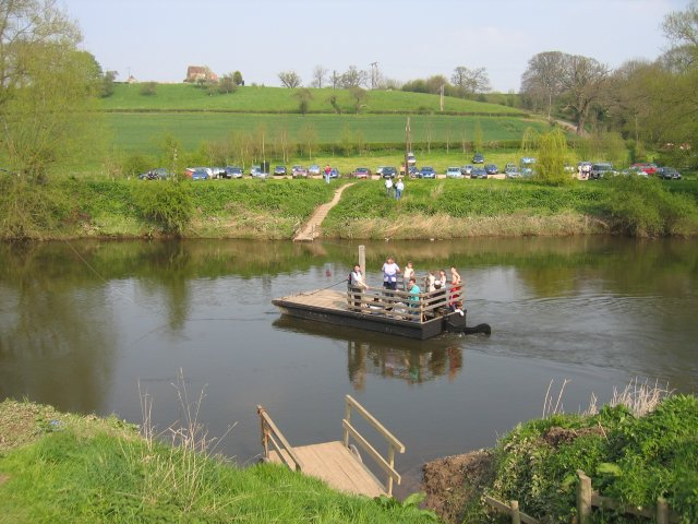 The Hampton Loade Ferry, a ferry that crosses the River Severn at Hampton Loade, Shropshire, England. This environmentally sound ferry uses the natural flow of the river to move itself across the Severn. It is tethered to a pulley block that runs on a cable suspended across the river, just visible in the upper left of the picture. For more information see the Wikipedia article Hampton Loade Ferry.